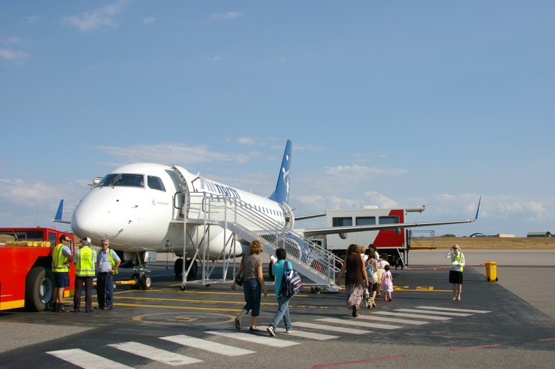 Airnorth (VH-ANO) Embraer 170/175 - MSN 99 at Darwin International Airport. VH-ANO was formerly leased to Hong Kong Express and is owned by GE Commercial Aviation Services.